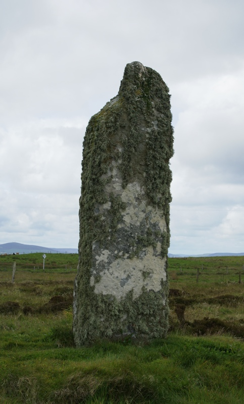 Mor Stein, Shapinsay, Orkney, Scotland.